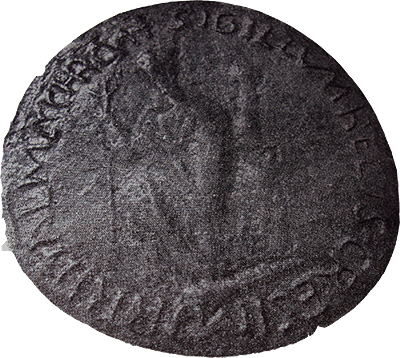 A seal of the Croatian king Peter Krešimir IV, which he used on a few documents. He is holding an apple (orb) in his left hand and a scepter (or most likely a sword) in his right. It reads "SIGILLUM REGIS CRESIMIR RI DALMAT(C)HROA(t)" meaning: "seal of king Krešimir (IV?) ruler of Dalmatia and Croatia"